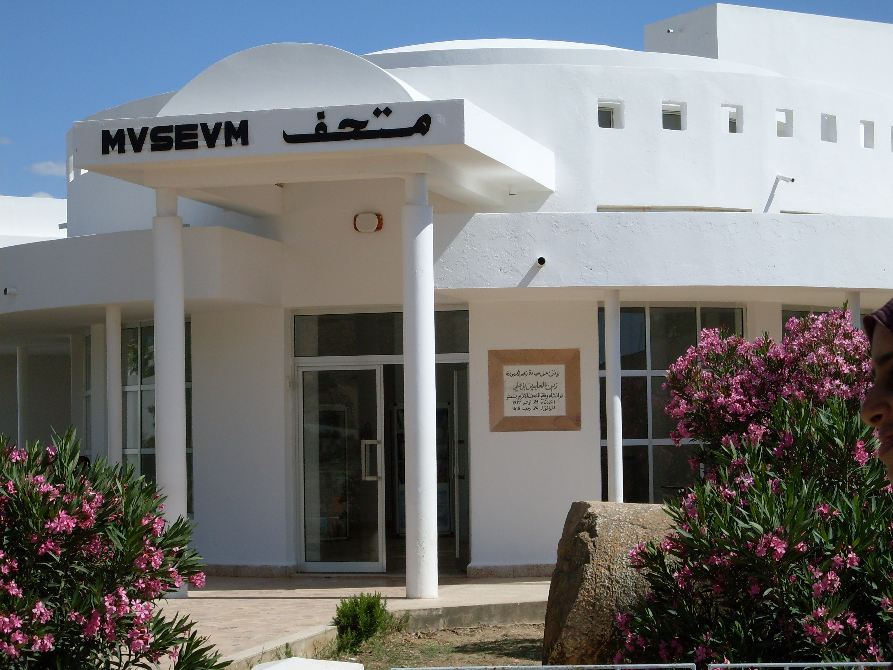 Entrée du musée archéologique de Chemtou, Chemtou, Gouvernerat de Jendouba, Tunisie